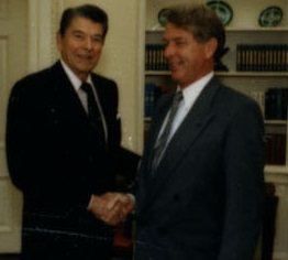 Ronald Reagan and John Thomas McCarthy in Oval Office